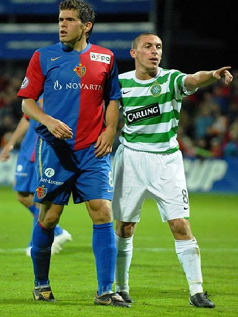 Photograph of Scott Brown verus FC Basle, pre-season 2007.